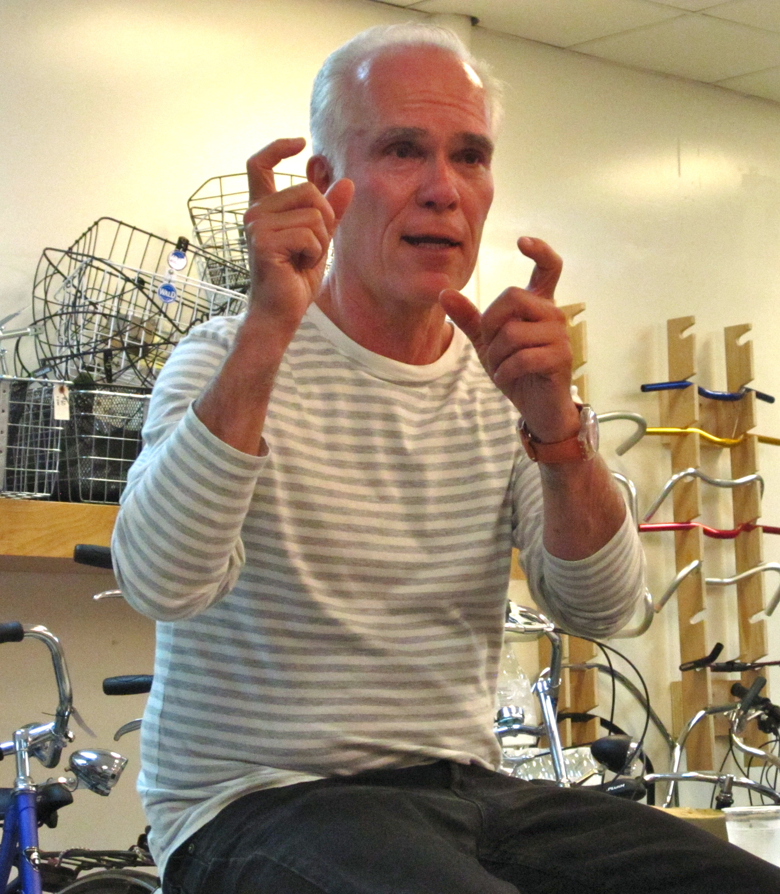 Former LA County District Attorney Gil Garcetti, September 9, 2010